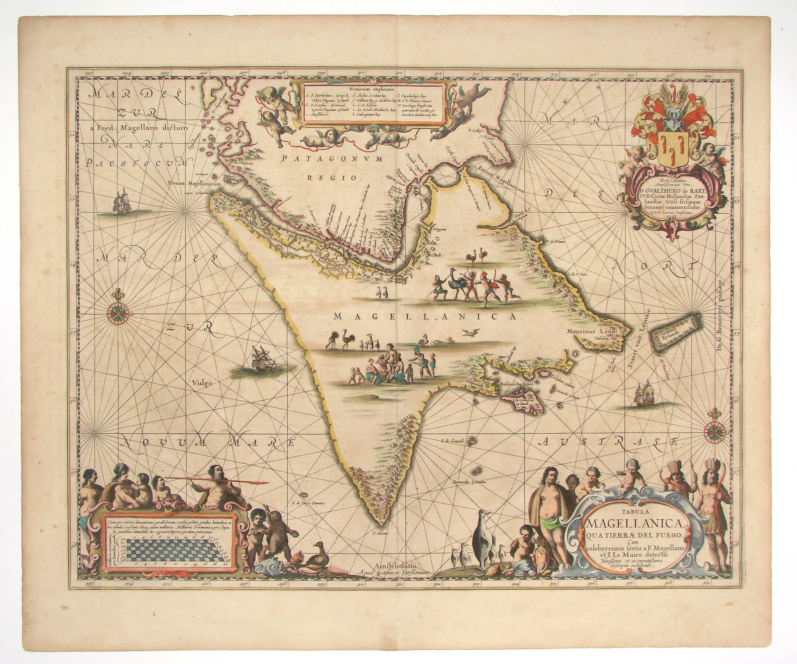 Map of Tierra del Fuego, southern tip of South America